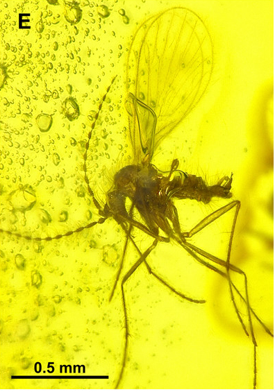 Bruchomyiinae, Sycoracinae and subfamily incertae sedis. (E) Palaeoparasycorax suppus. ♂, Holotype specimen.